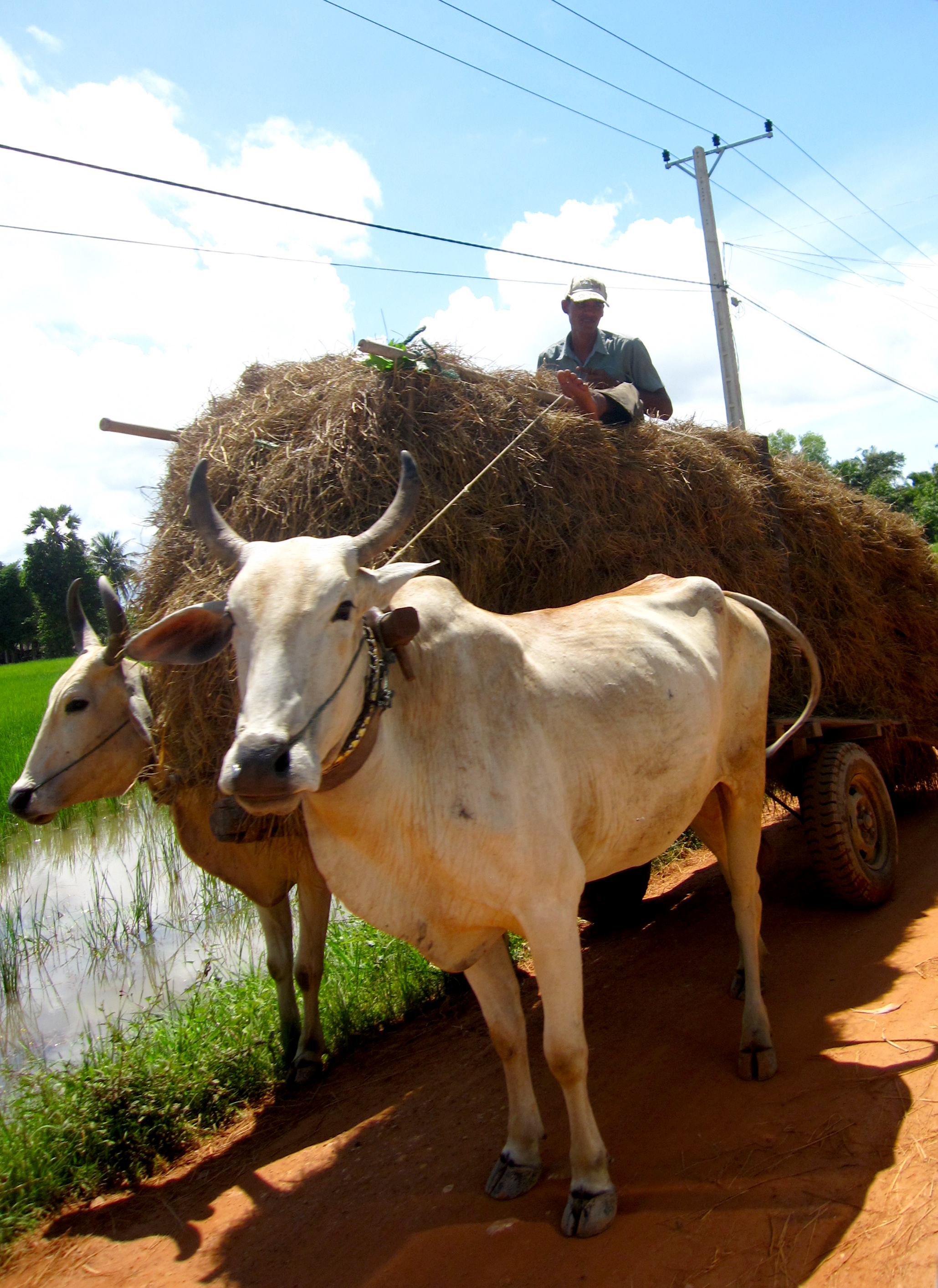 Cambodian farmer on a countryside dirt road near Puok (Cambodia) in September 2010.